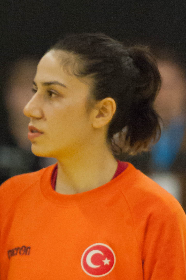 2015 World Women's Handball Championship Qualification 2014-12-06: Fatma Ay